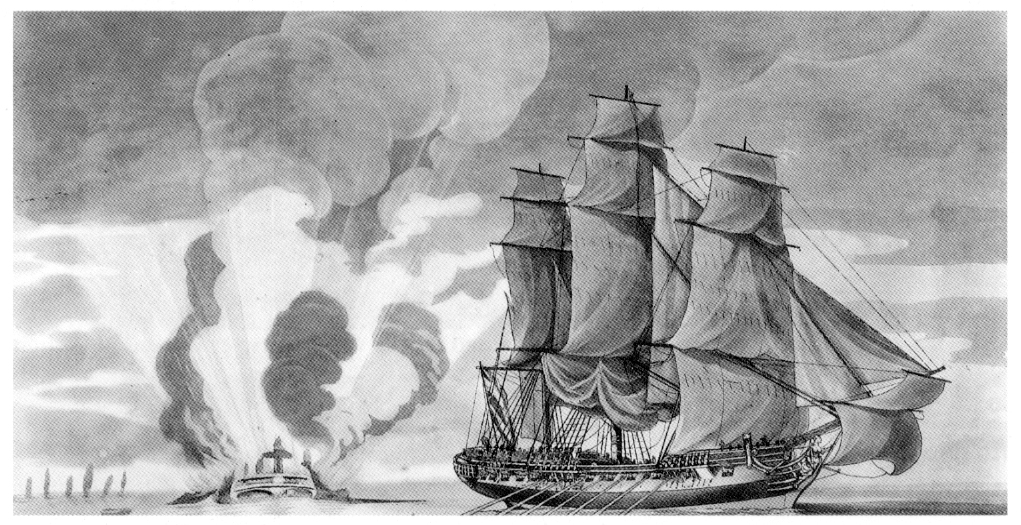 Engagement between His Majesty's Ship Success... and the Santa Catalina a Large Spanish frigate... off Cape Spartel, on the 16th March 1782. Plate 3rd. Captn Pole... being becalmed... setting her (Santa Catalina) on Fire, & making sail with...; aquatint & etching, coloured